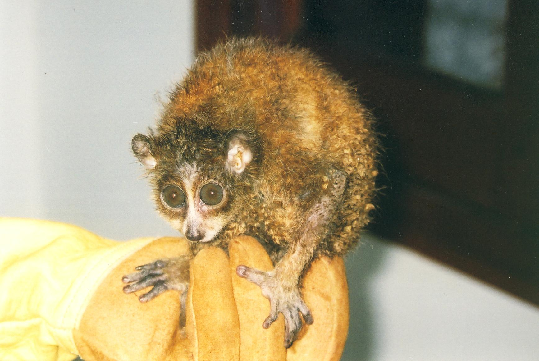 Nycticebus pygmaeus obtained at Hanoi market. The animal died shortly after the photo was taken.